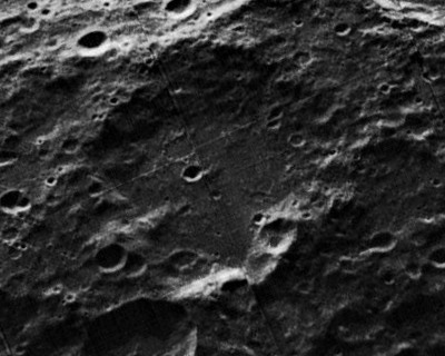 Oblique view of Van't_Hoff, on the far side of the moon, facing southwest.